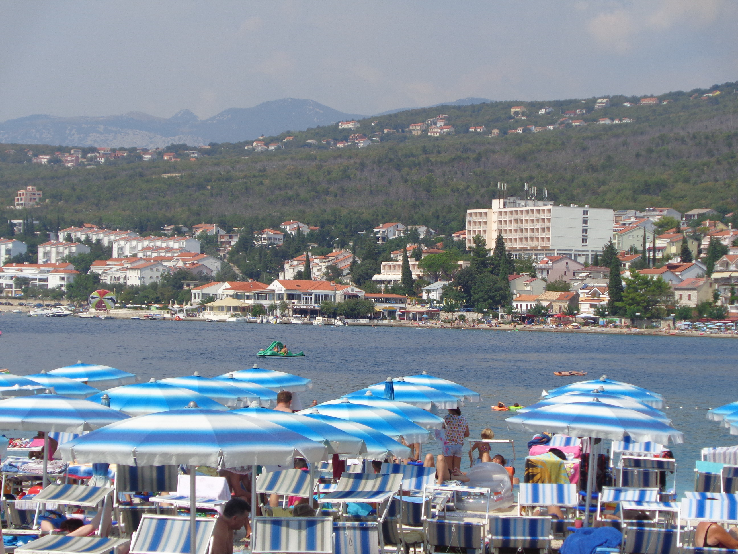 Selce, Primorje-Gorski Kotar County, Croatia - parasols on the beachHrvatski: Selce, Primorsko-goranska županija, Hrvatska - suncobrani na plaži